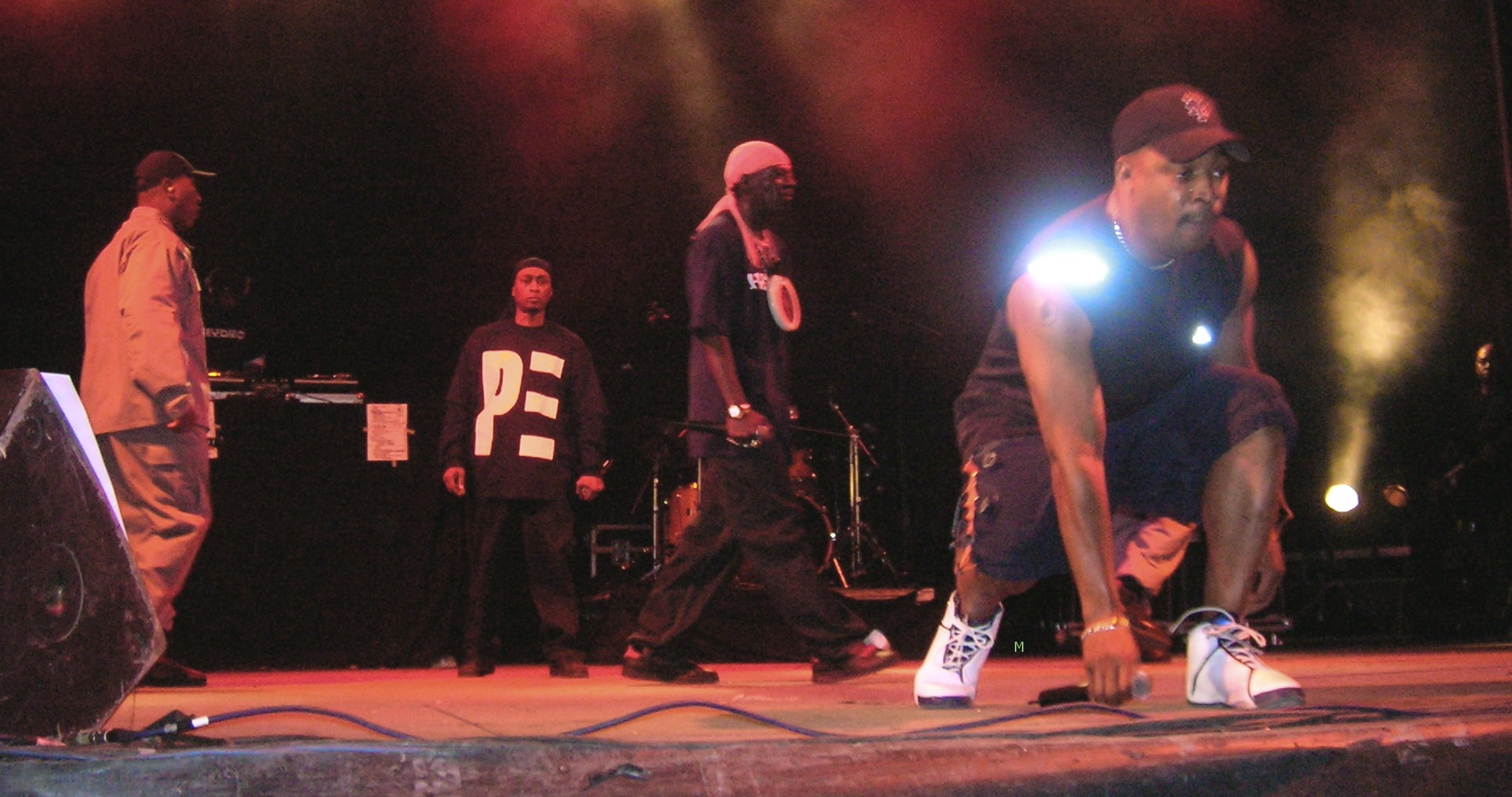 A member of the Security of the First World, Professor Griff, Chuck D and Flavor Flav, from Public Enemy, acting live at the Bilbao Urban Musikaldia, at Vista Alegre bullring.